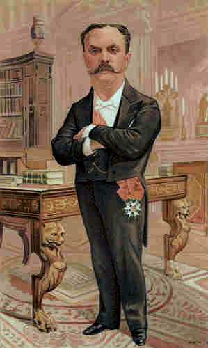 Caricature of M JPP Casimir-Perier. Caption read " The French Republic".